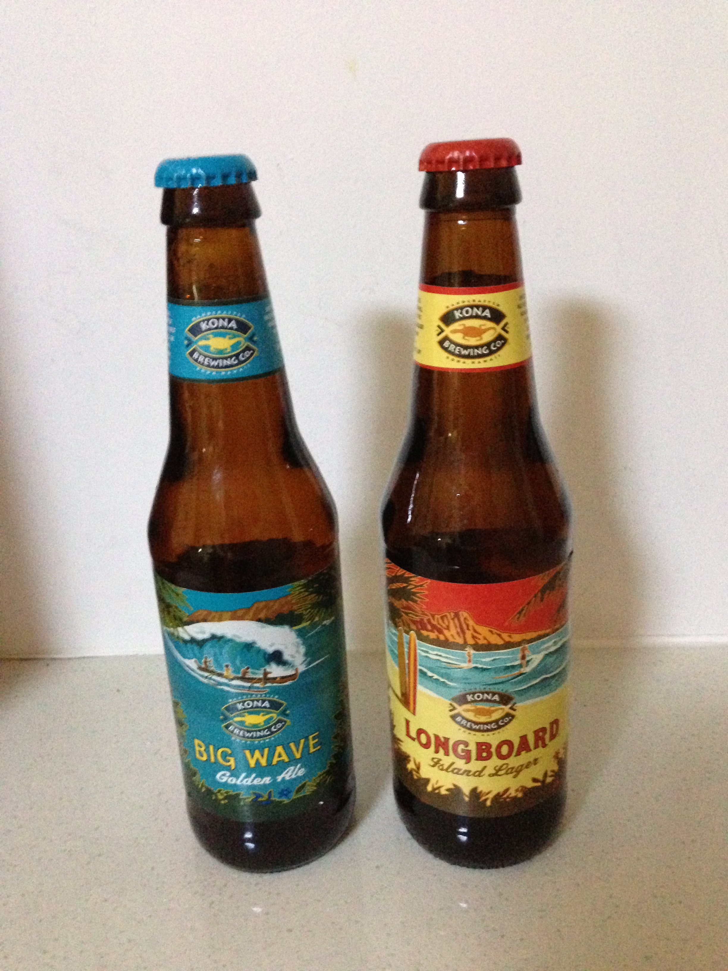 Kona Brewing Company beers